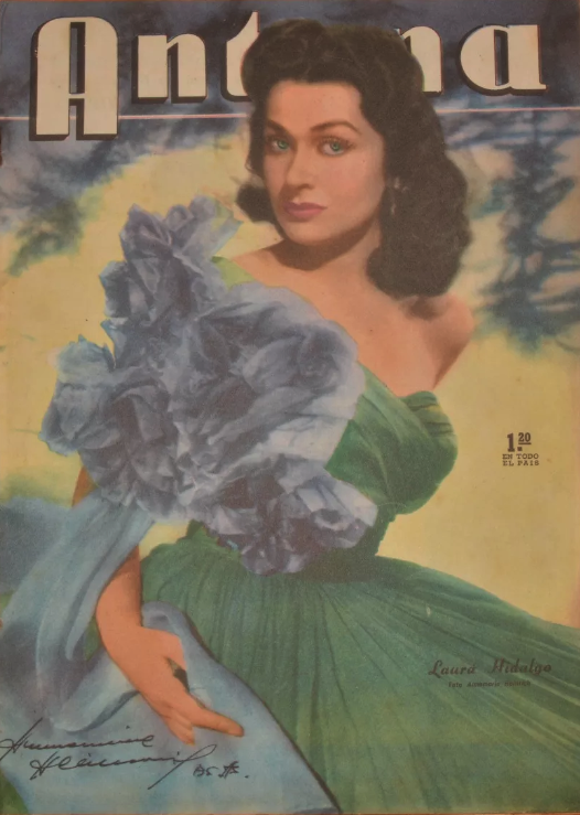 Laura Hidalgo on Antena TV cover, 1954